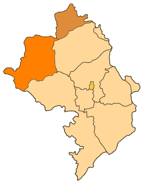 Location of Shahoumyan in NKR